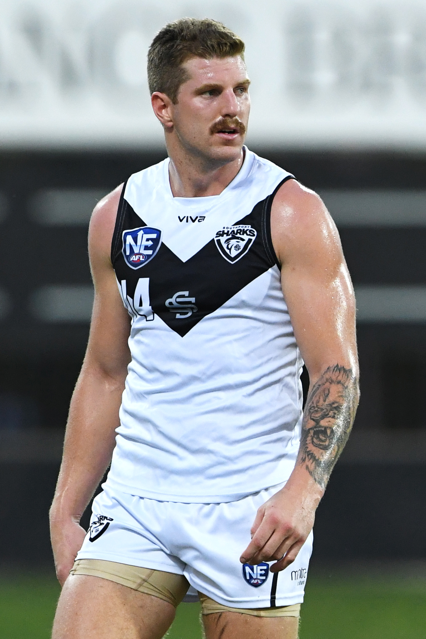 Brodie Murdoch of Southport during the 2018 NEAFL round 20 match between NT Thunder and Southport at TIO Stadium on 18 August 2018 in Darwin, Northern Territory.